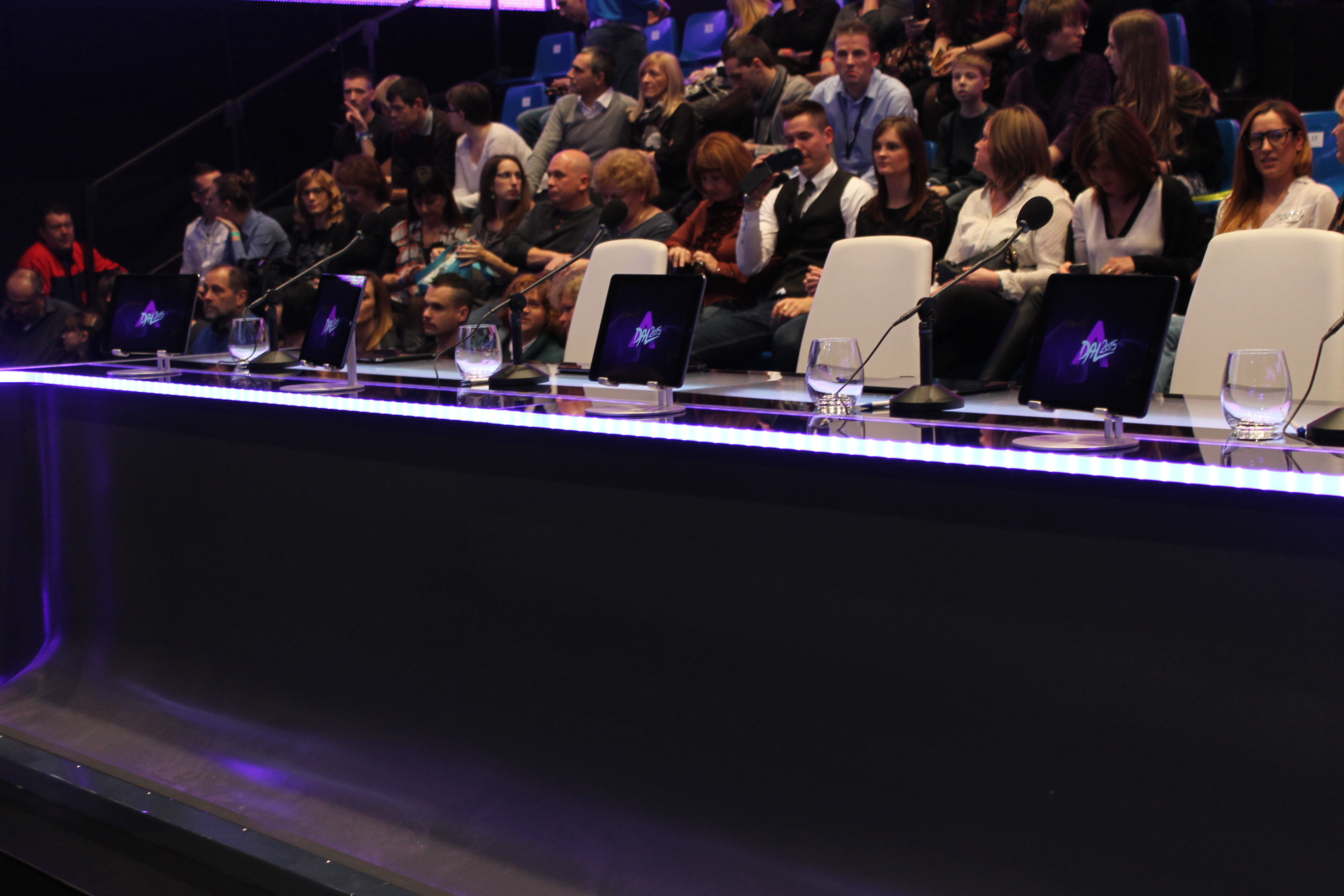 The jury desk in A Dal 2015